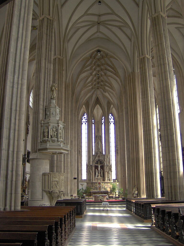 St. Jacob inside 2